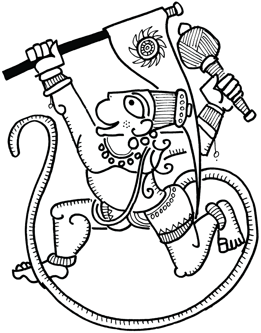 Hanuman raises Ram's banner